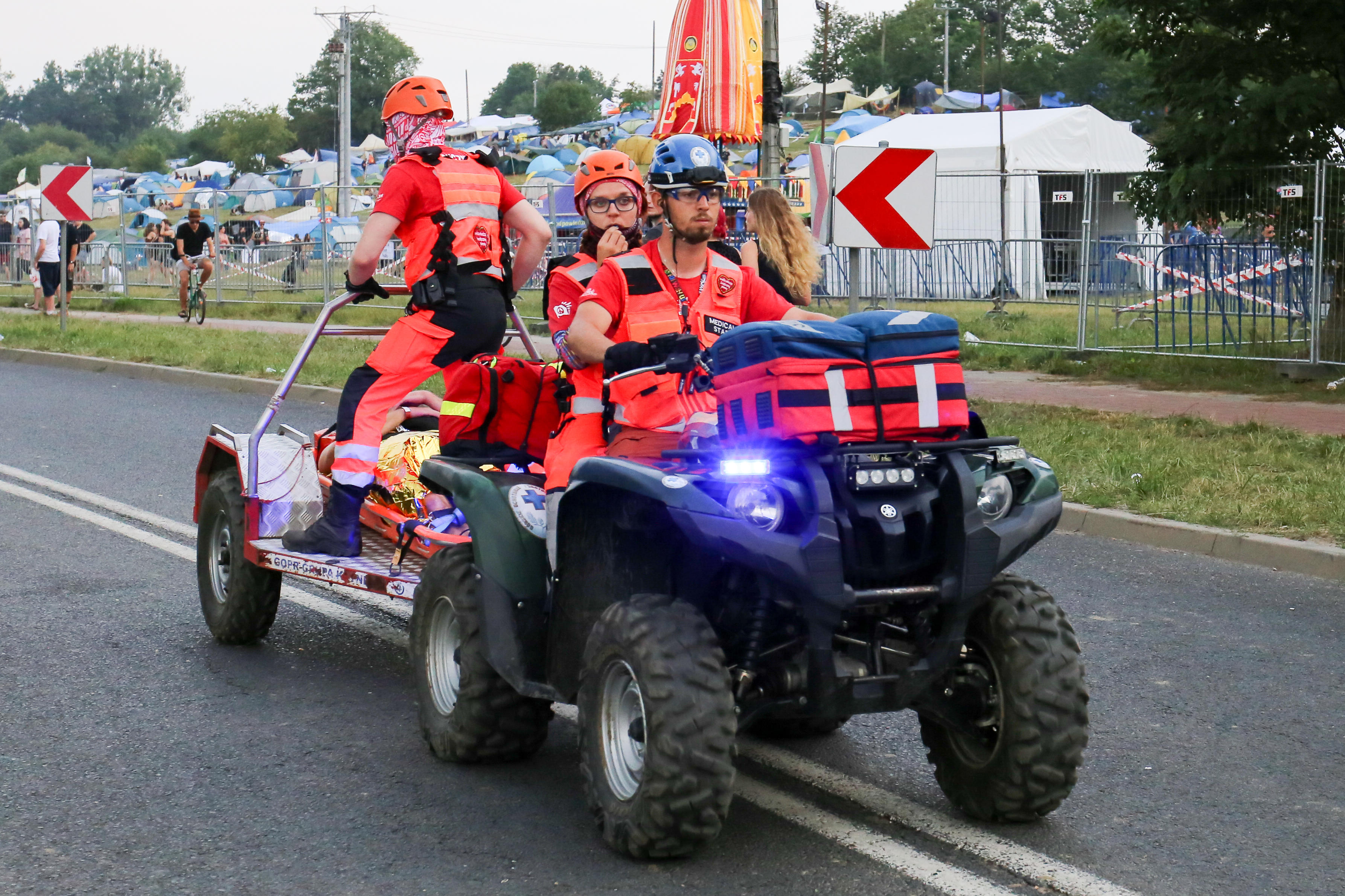 Pol’and’Rock Festival in 2019.